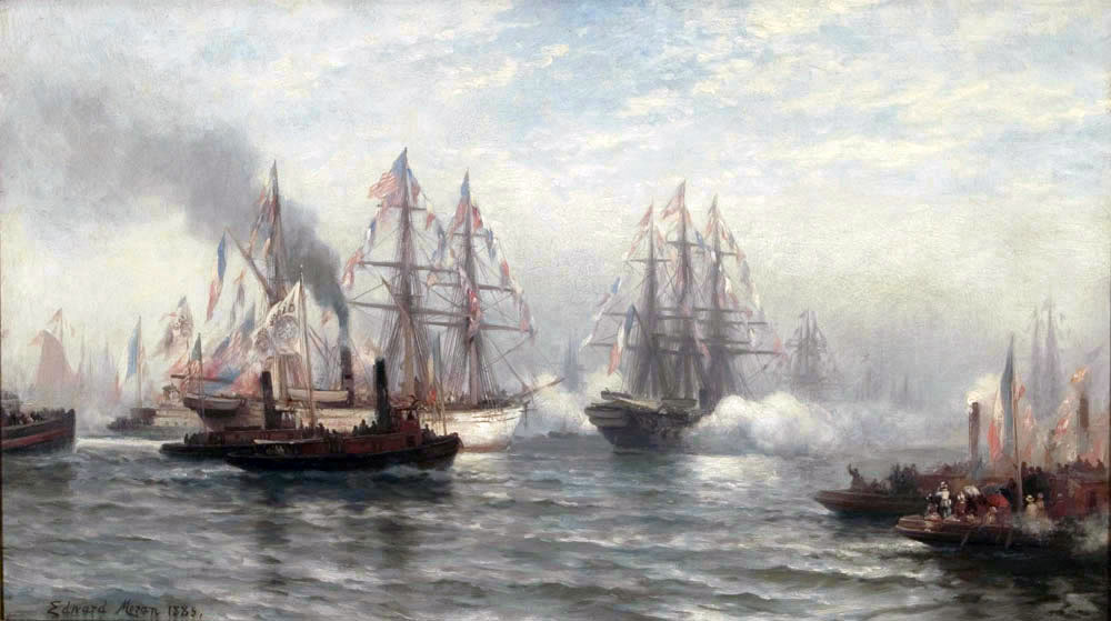 The Statue of Liberty Arrives in New York Harbor, Reception of the Isère, June 20, 1885.